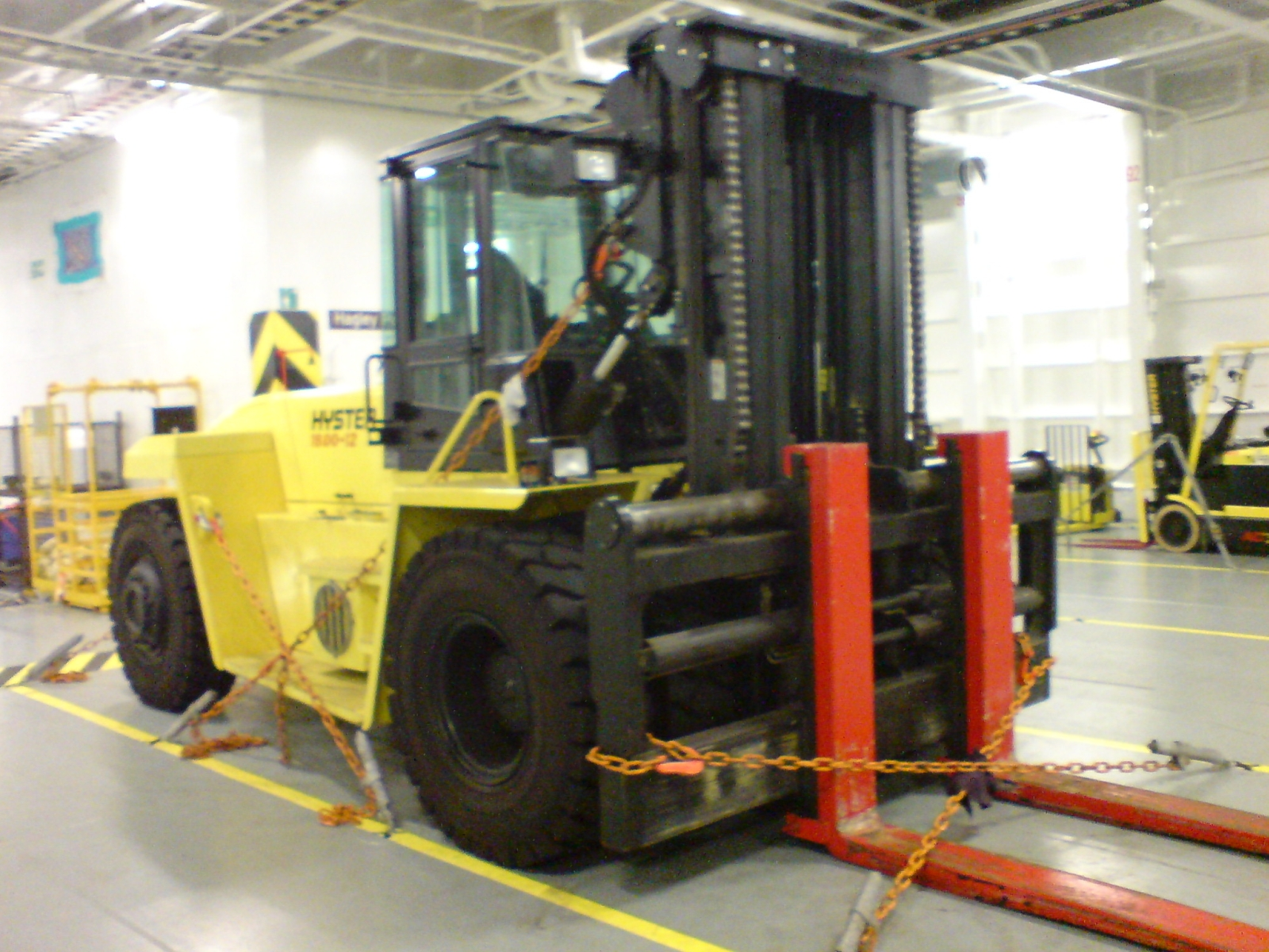 The container forklift of the HMNZS Canterbury. Massive brute, sadly the picture did not turn out that well.